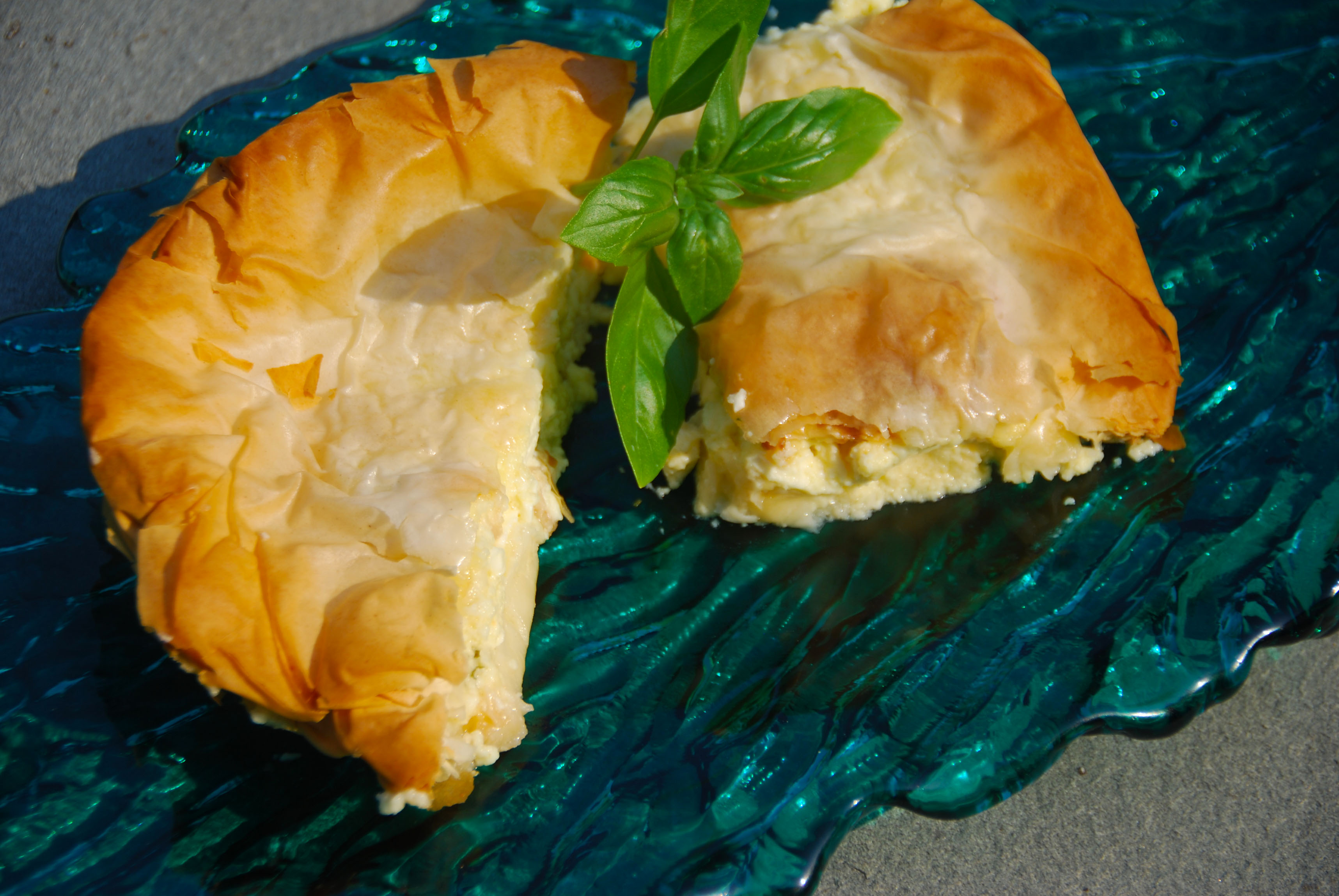 Tiropita with garnish on blue glass plate.